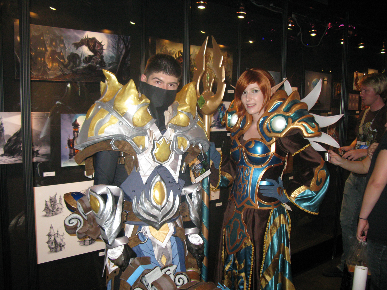 Costumes at Blizzcon 2009 made by the attendees